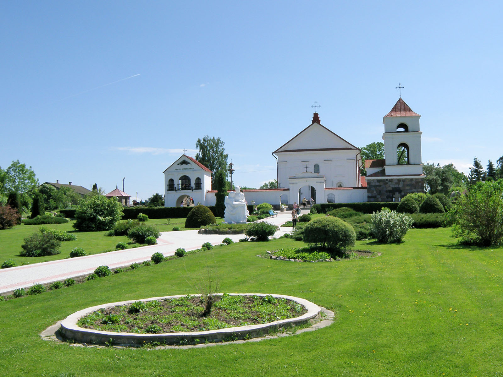 St Hanna Church of Mosar, Vitebsk Region of Belarus This is a photo of Belarusian heritage monument. Reference number: 212Г000397 ( WLM)